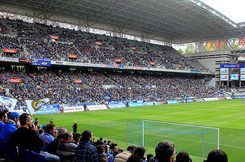 El estadio del Real Oviedo, se supera la mitad del aforo casi cada fin de semana, estando en 2aB